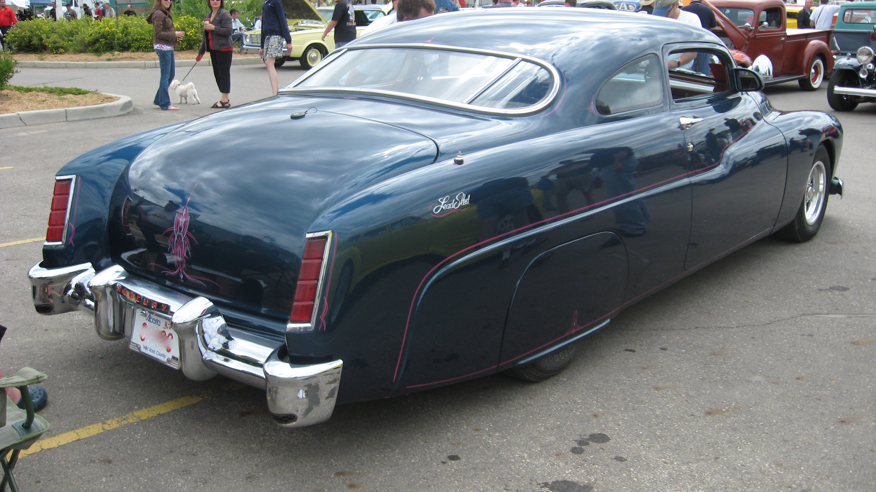 '51 custom merc, '81 lincoln taillights, skirts, pinstriping, shot at local car show/swap meet